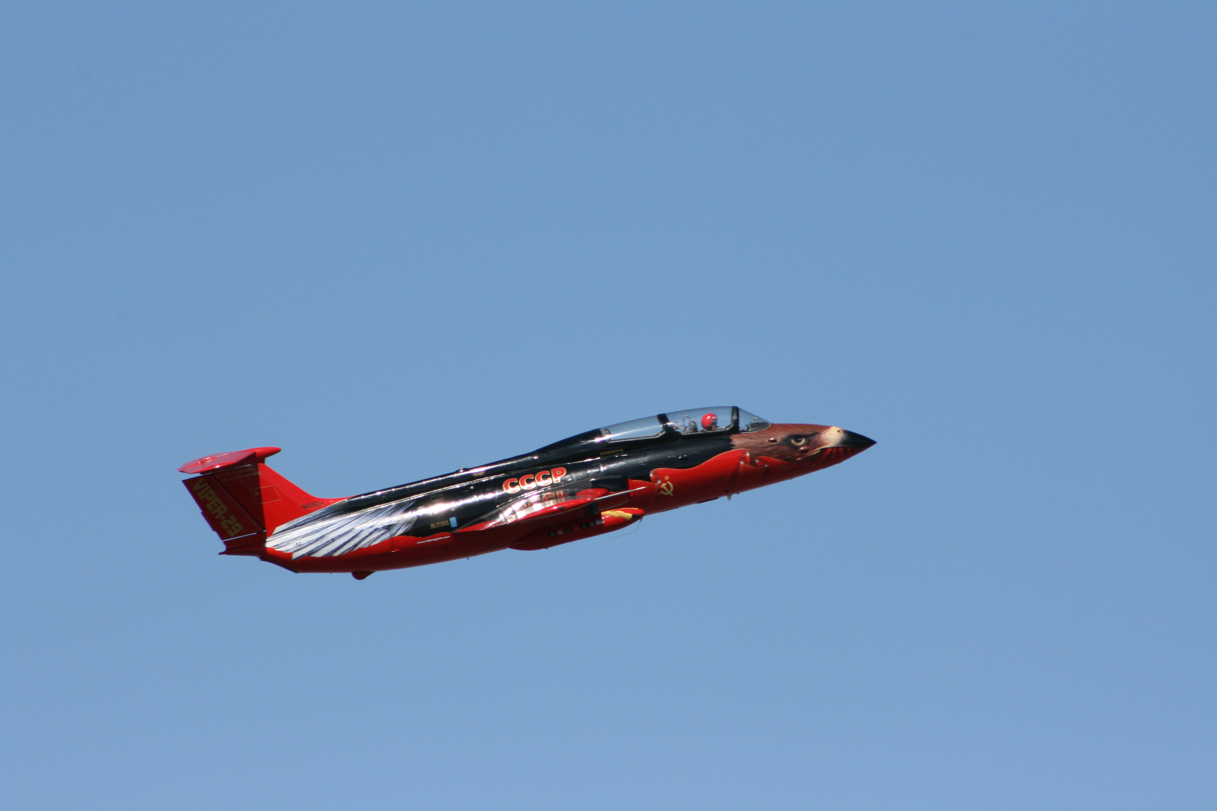 Photo of the Air Show at the Naval Air Station in Jacksonville, Florida, USA.